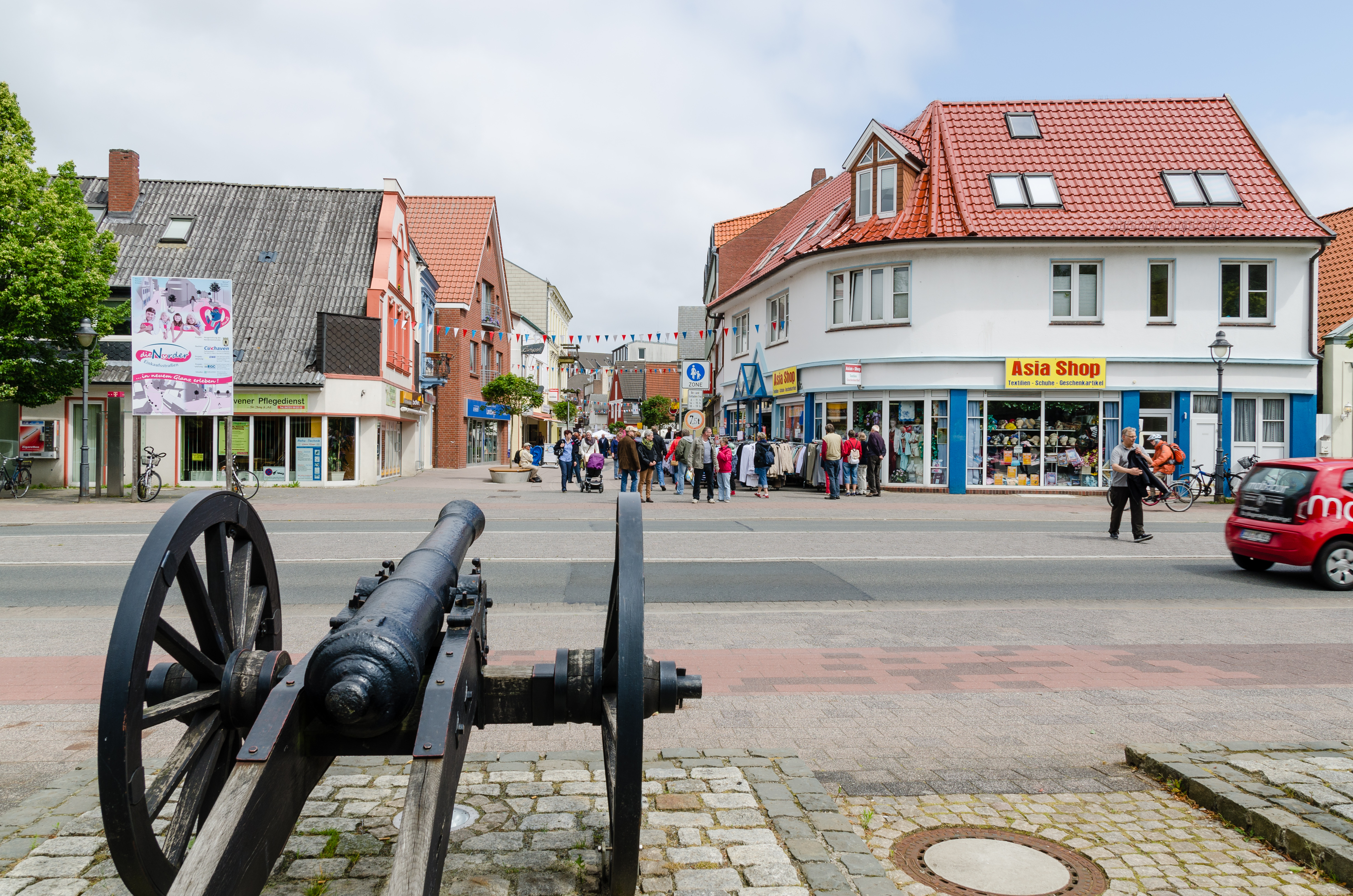 Centralshopping street Nordersteinstraße in Cuxhaven